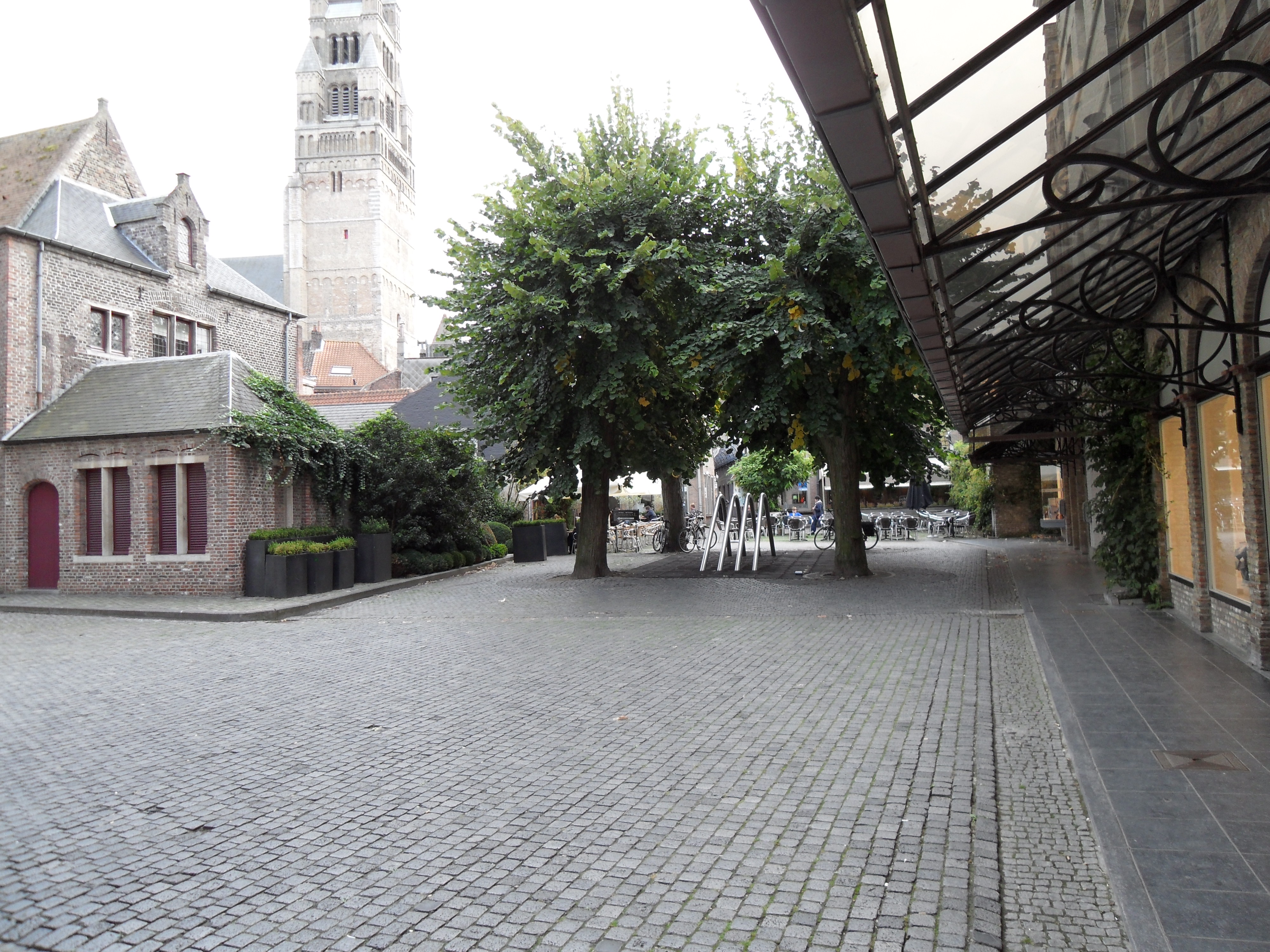 Zilverpand in Bruges